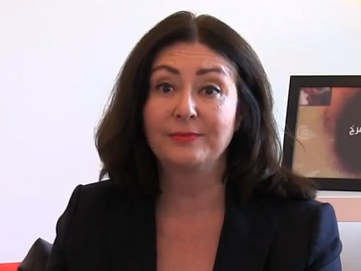 A portrait image of Maryam Namazie in 2014